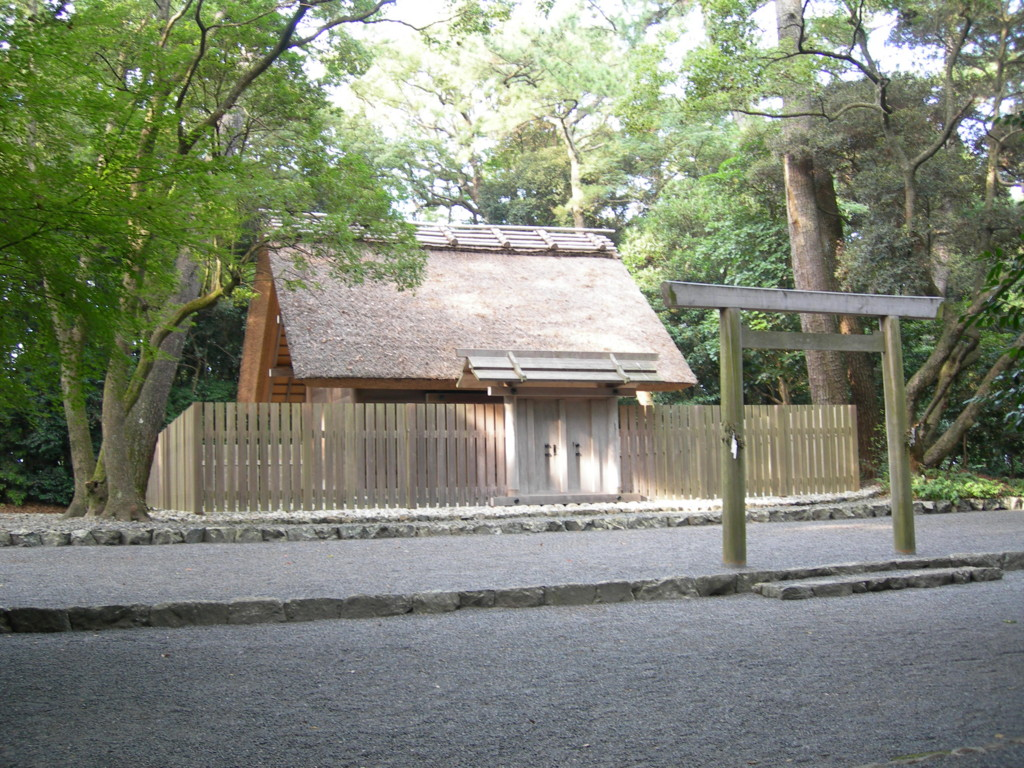 The Mishioden in Mishioden-jinja. Mishioden-jinja is the salt supplier for Jingu, Futami-cho, Ise city, Mie prefecture, Japan. Dible salt is burned and becomes the sacred salt (Mishio) in the Mishioden.